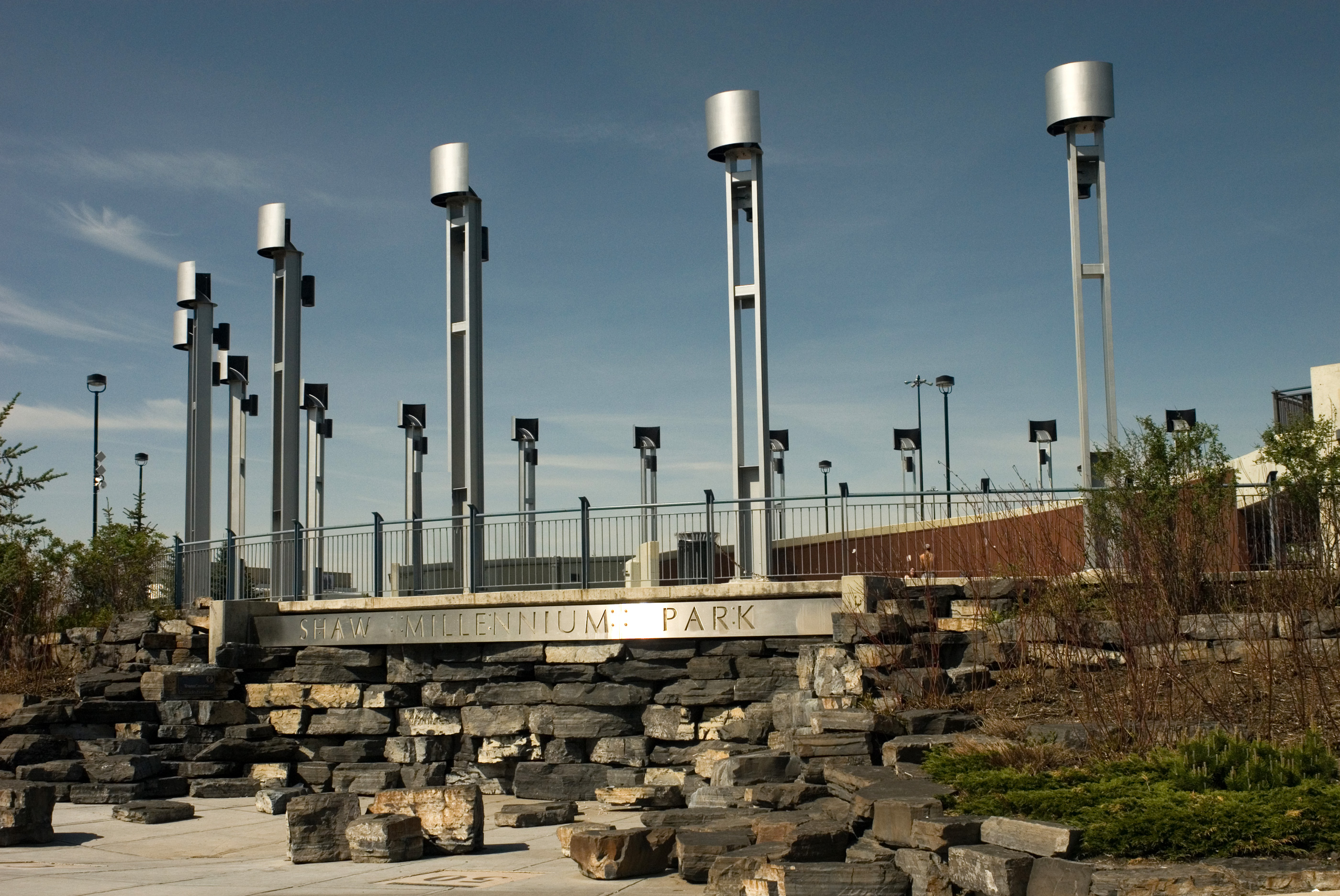 Shaw Millenium Park in Calgary, Alberta. Photo by Chuck Szmurlo taken May 27 with a Nikon D200 and a Nikon 28-70 f 2.8 lens.